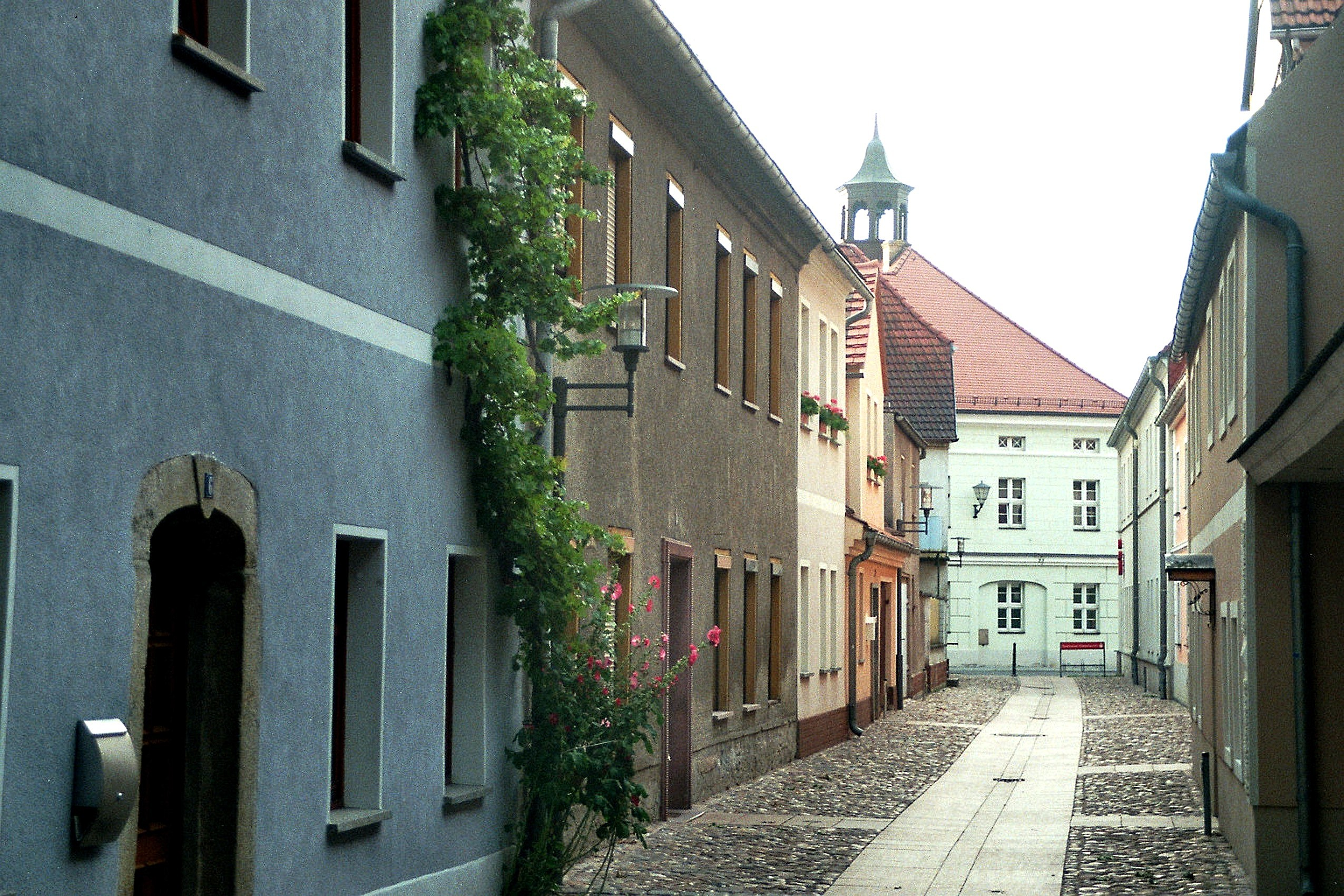 Ortrand, the Kirchgasse, view to the town hall